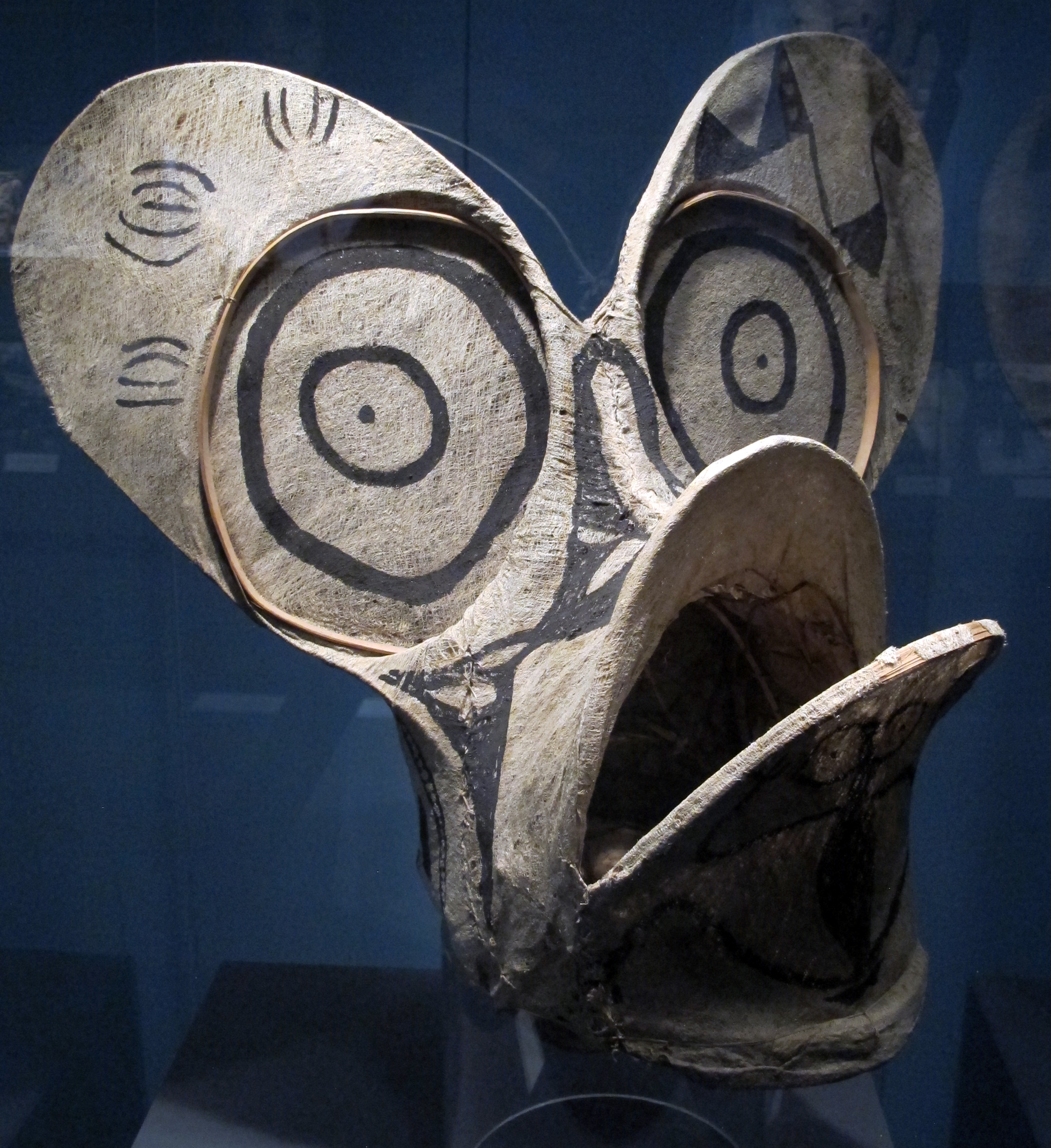 Oceanic art in the Historisches Museum Bern